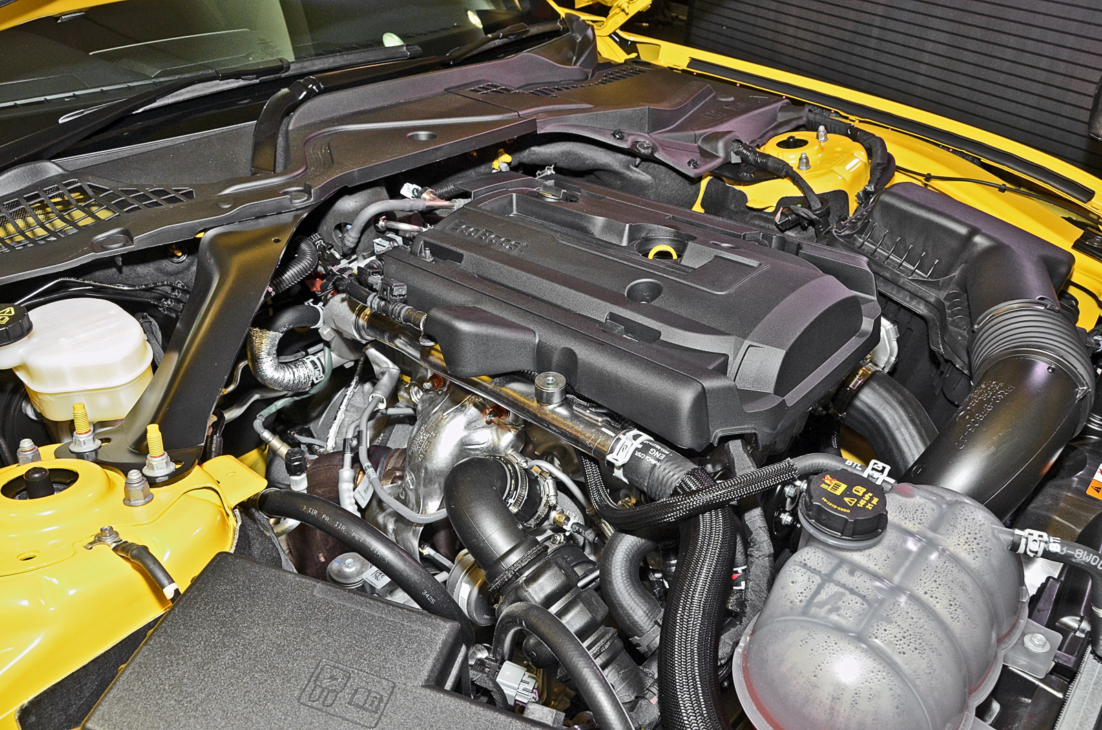 Export-spec RHD Mustang EcoBoost's engine rated at 317ps